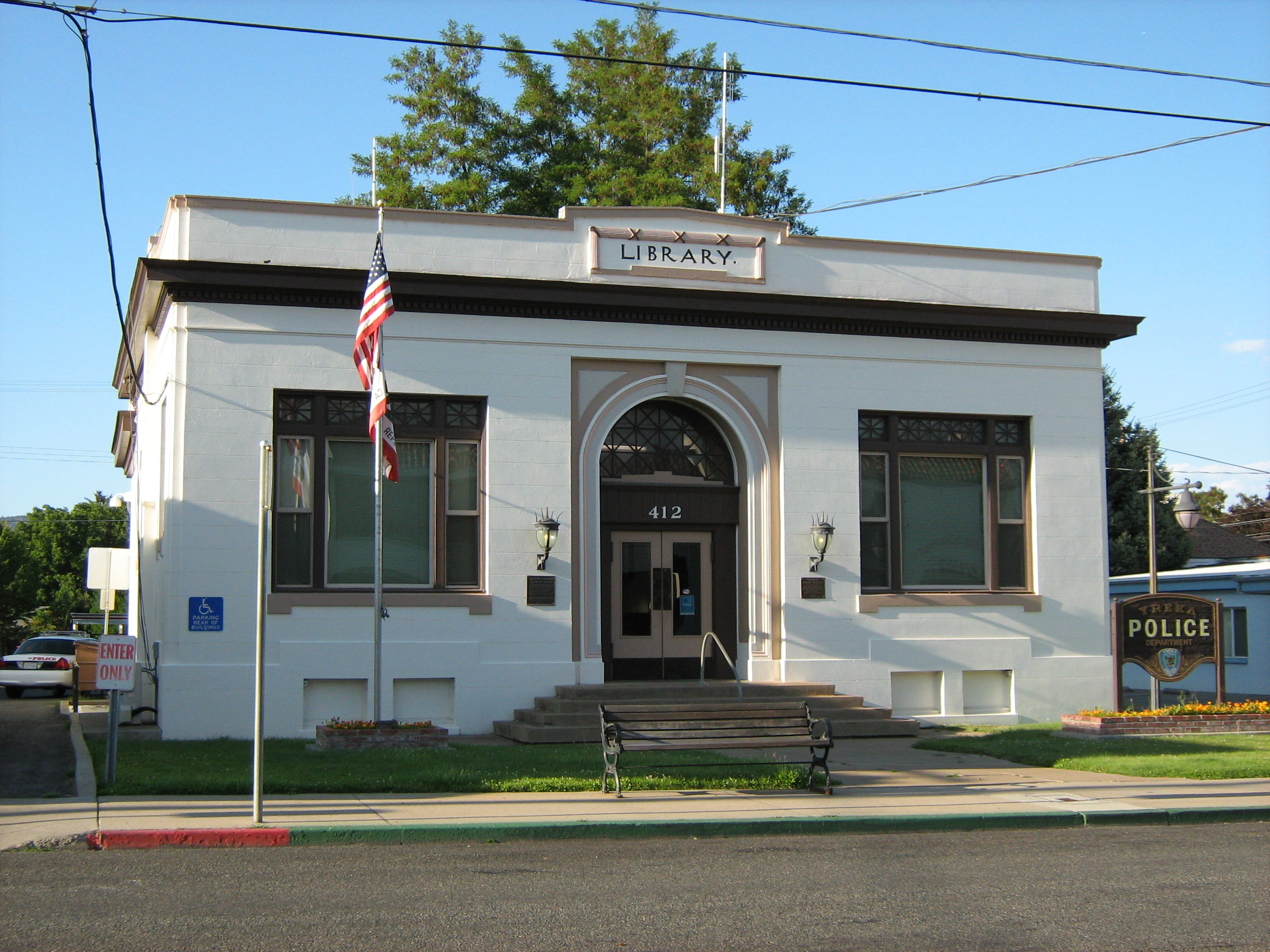 Photo of the Carnegie Library Building in Yreka, California. Building is currently used by the Police Department.